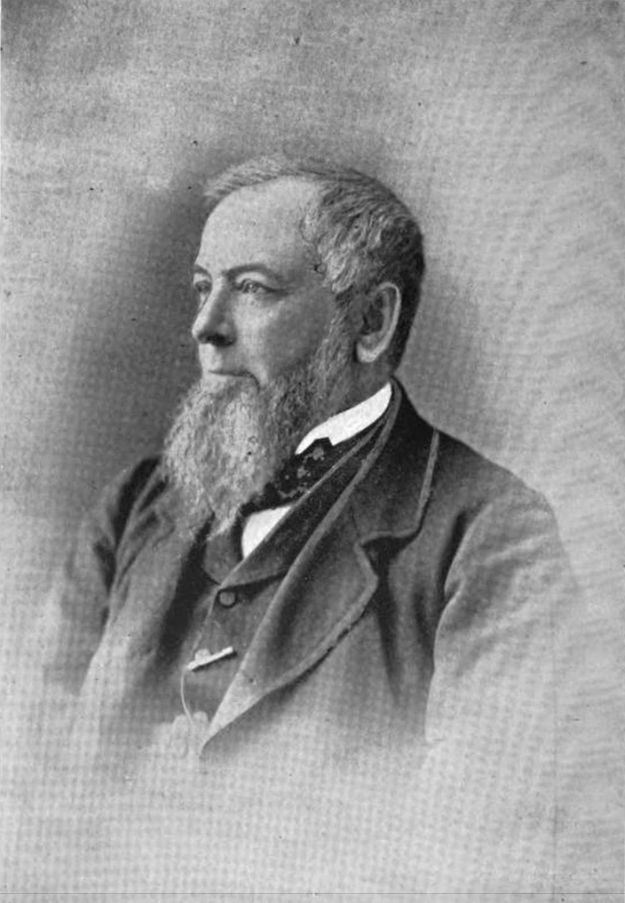 Reproduction of a photo of Scottish American businessman George Armour. From The Second Presbyterian Church of Chicago: June 1st, 1842, to June 1st, 1892 by Thomas B Carter, John C Grant, Rev Simon McPherson, DD et al, Chicago, 1892. George Armour (1812-1881)